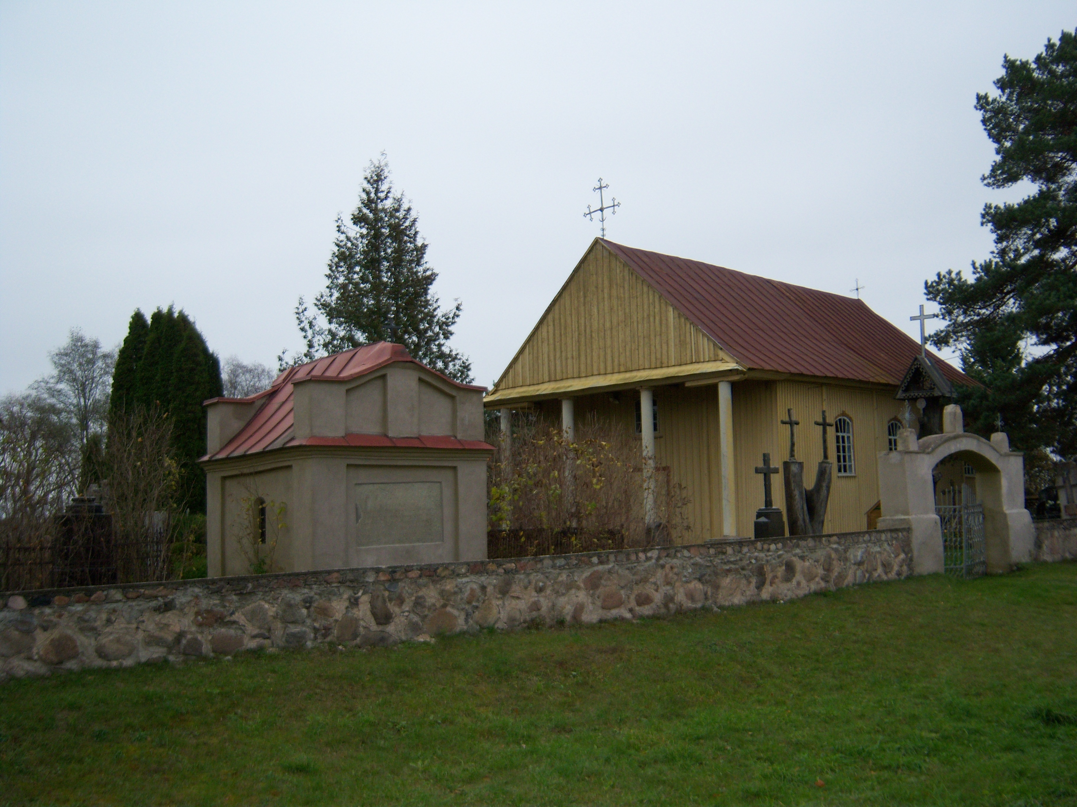 Papiliai Chapel, Anykščiai District, Lithuania